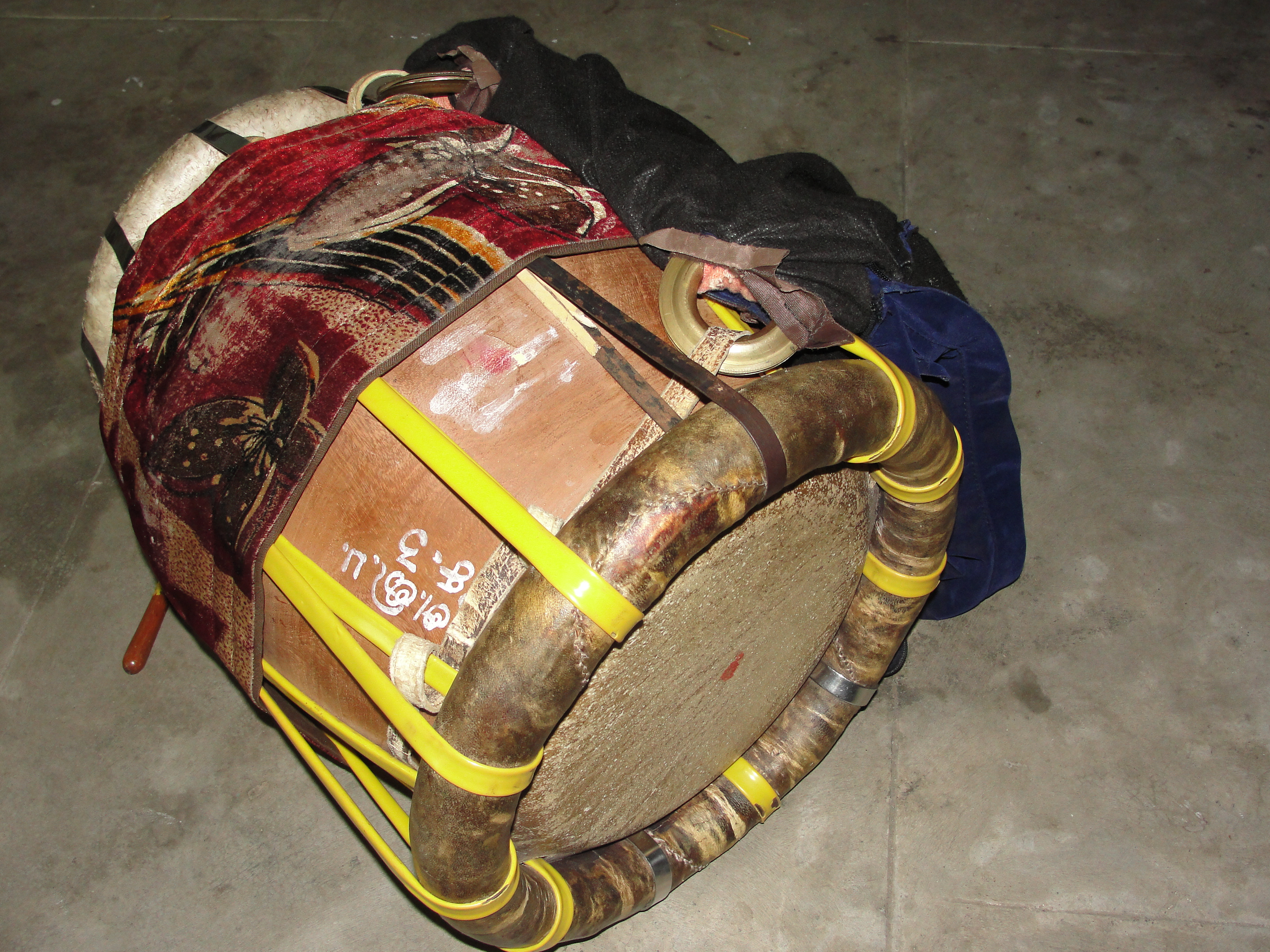 Tavil